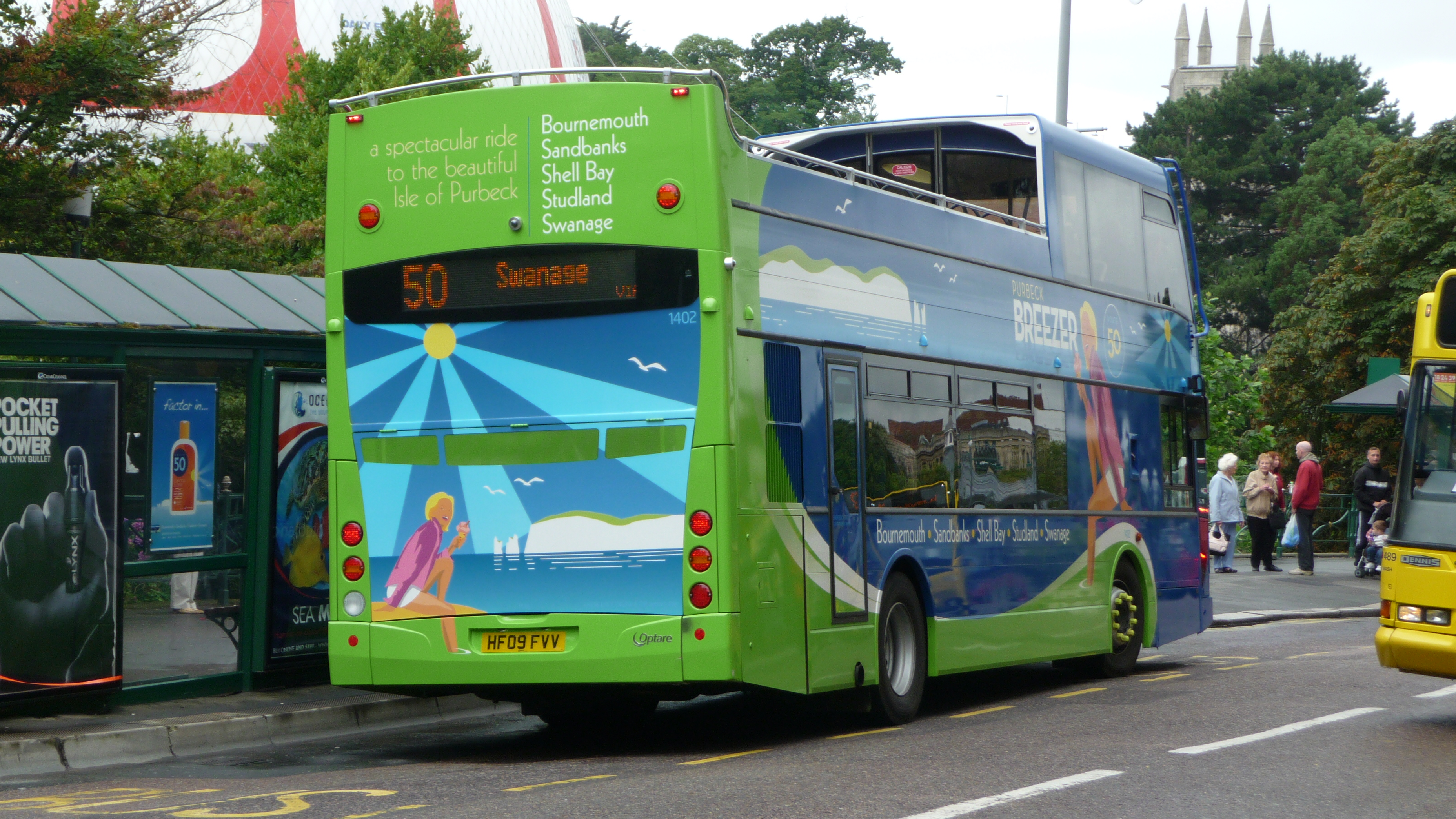 Wilts & Dorset 1402 (HF09 FVV), a Scania N230UD/Optare Visionaire, in Gervis Place, Bournemouth, Dorset, on route 50. It wears "Purbeck Breezer" livery for route 50. It was a month old at the time.